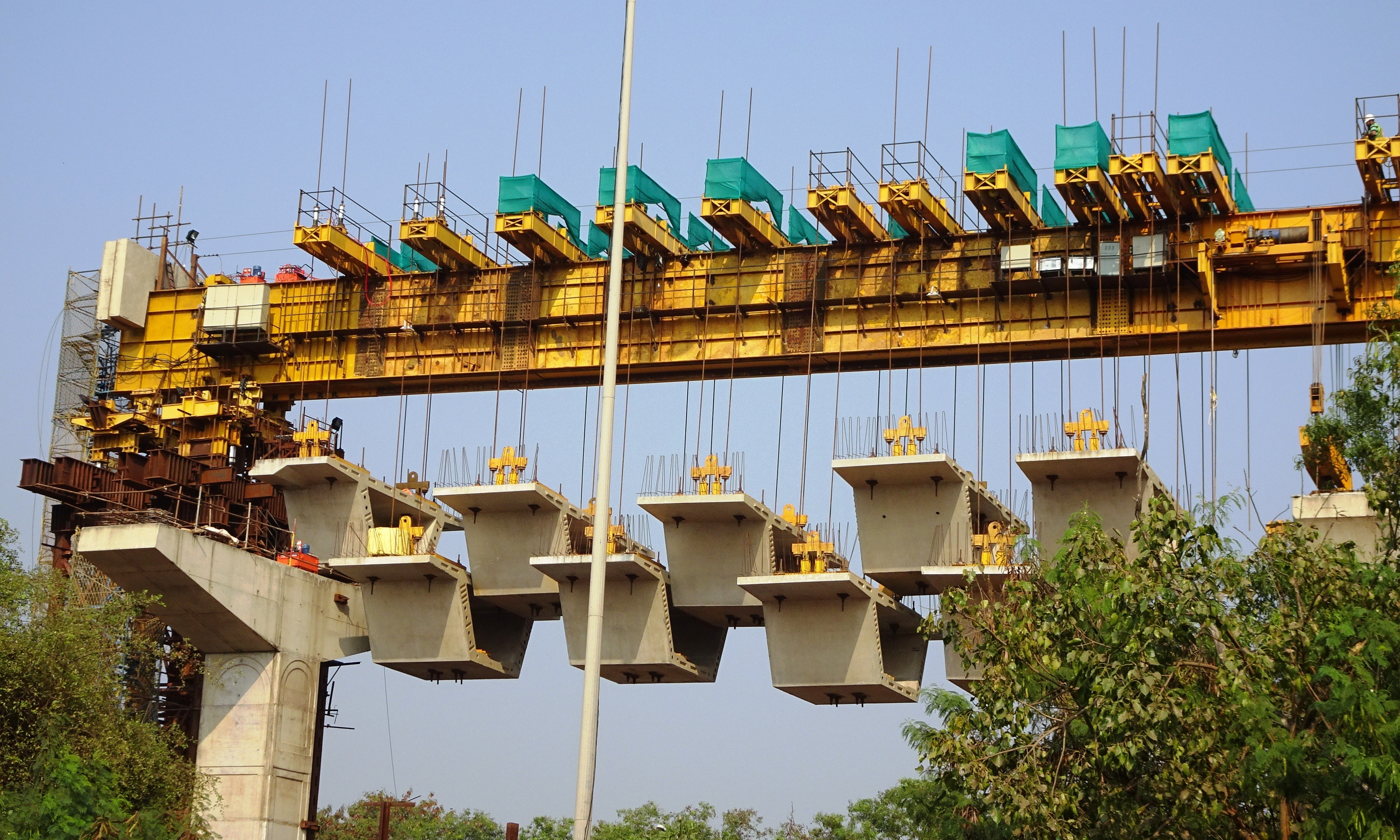 Status 9.1.18 Hanging deck slabs, segments as seen from KTC More updates pics and videos here